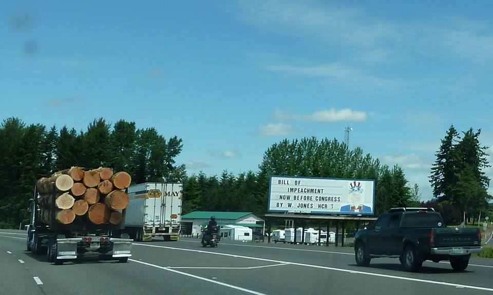 The Uncle Sam Billboard near Chehalis, Washington, United States, heading north on Interstate 5